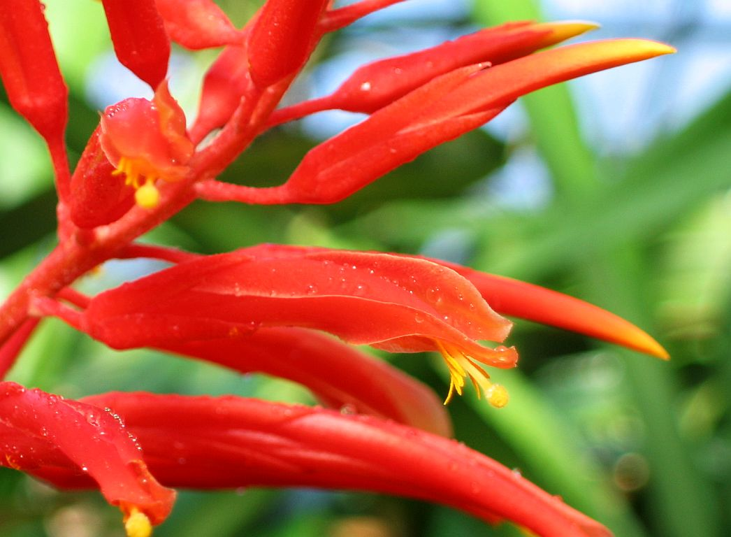 Pitcairnia grafii in cultivation at the Botanical Garden of Heidelberg, Germany.